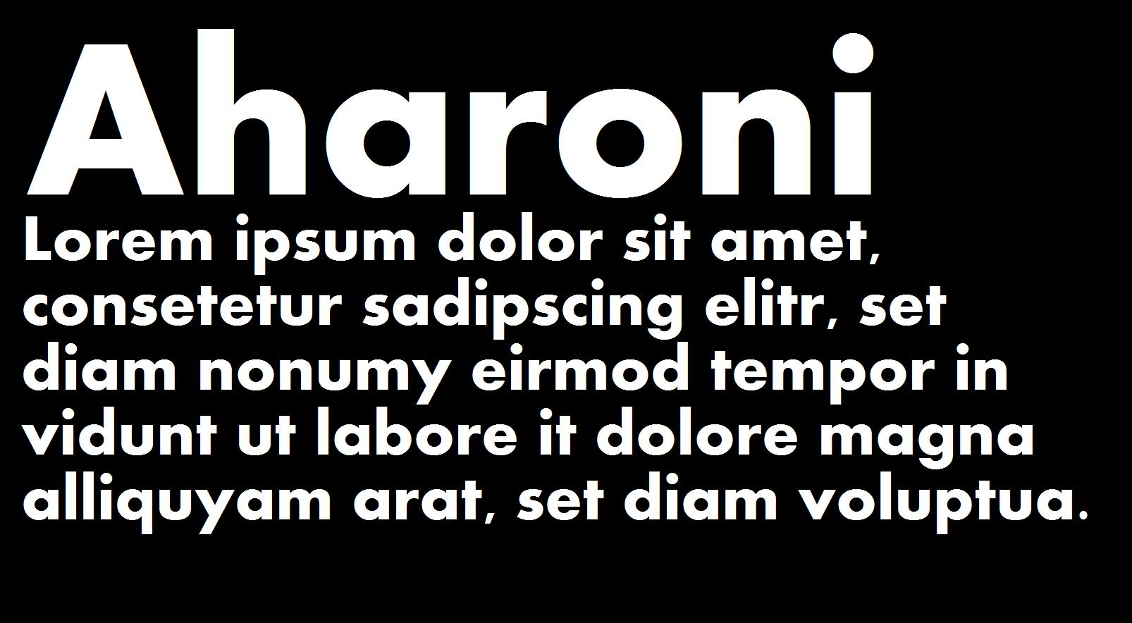 This is a lorem-ipsum text of the font family Aharoni.